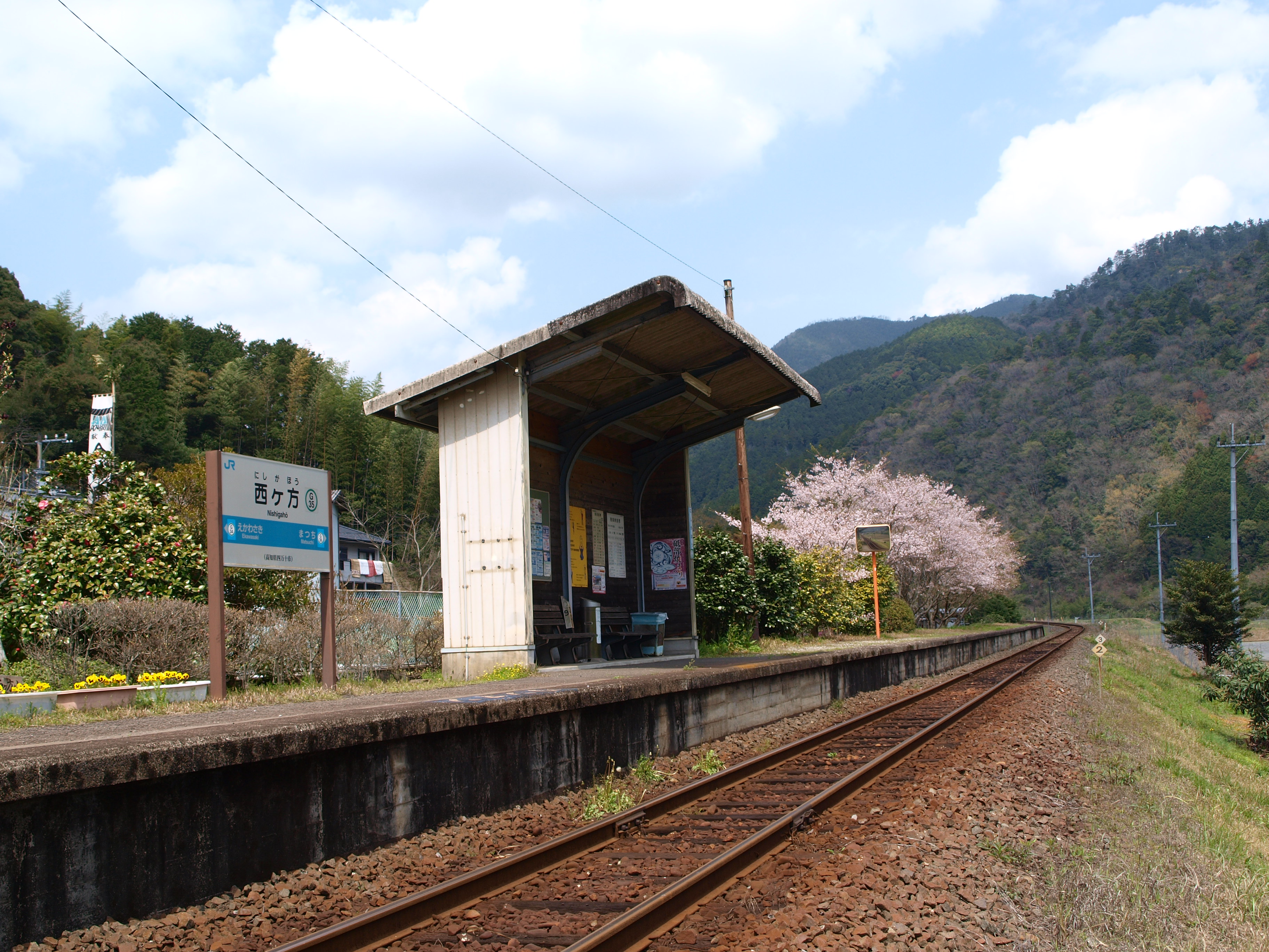 Nishigaho station, Yodo-line, JR Shikoku, Japan